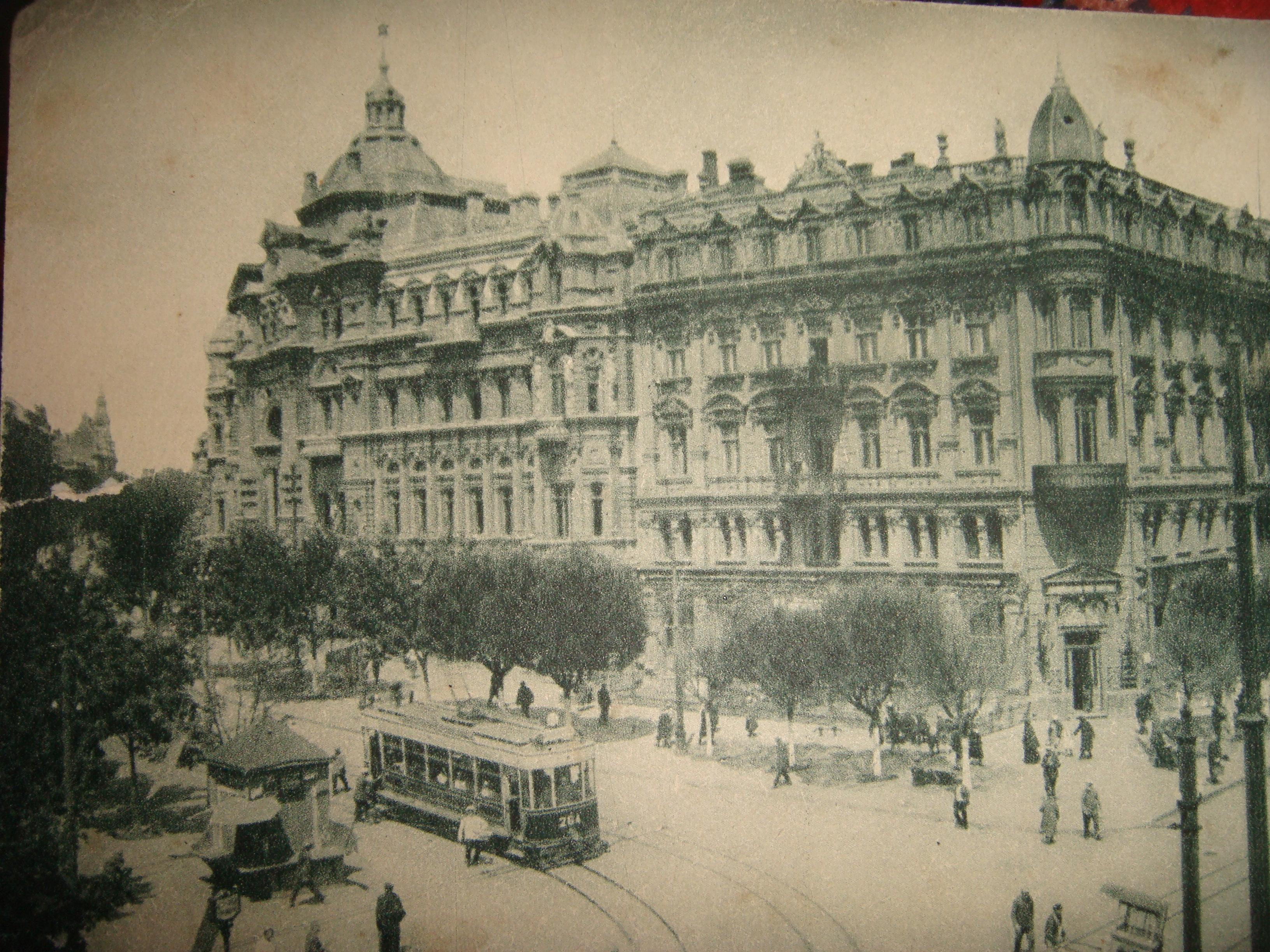 Odessa old CP with view to Russov (left) & Libman House, Odessa. Circa 1920.